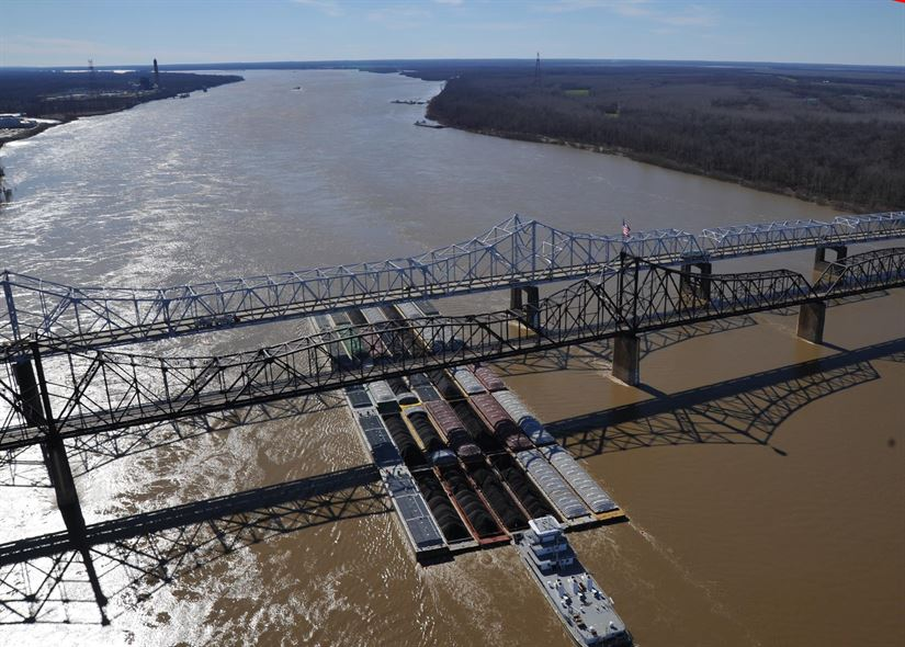 Lower Mississippi barge